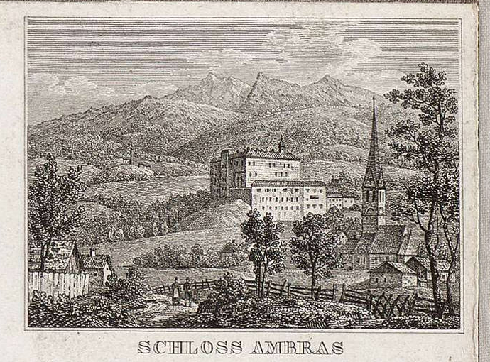 Map of Imperial and Royal Provincial Capital Innsbruck and surroundings: detail Ambras castle